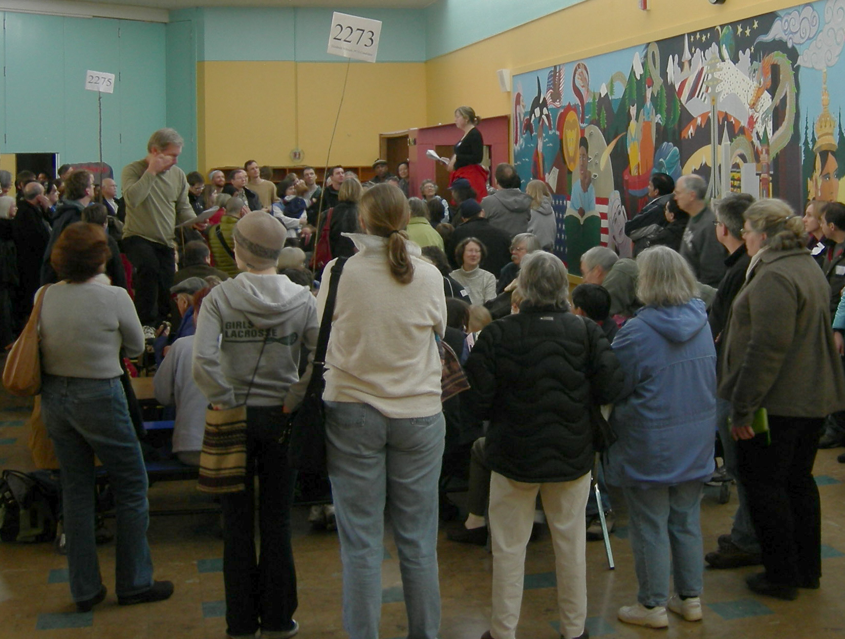 Part of the 2008 Washington State Democratic Party Caucus. This is at the Eckstein Middle School, Seattle, Washington. The precincts meeting there were part of the 46th Legislative District. Each precinct caucuses separately. Here, precincts caucus in the school lunchroom.